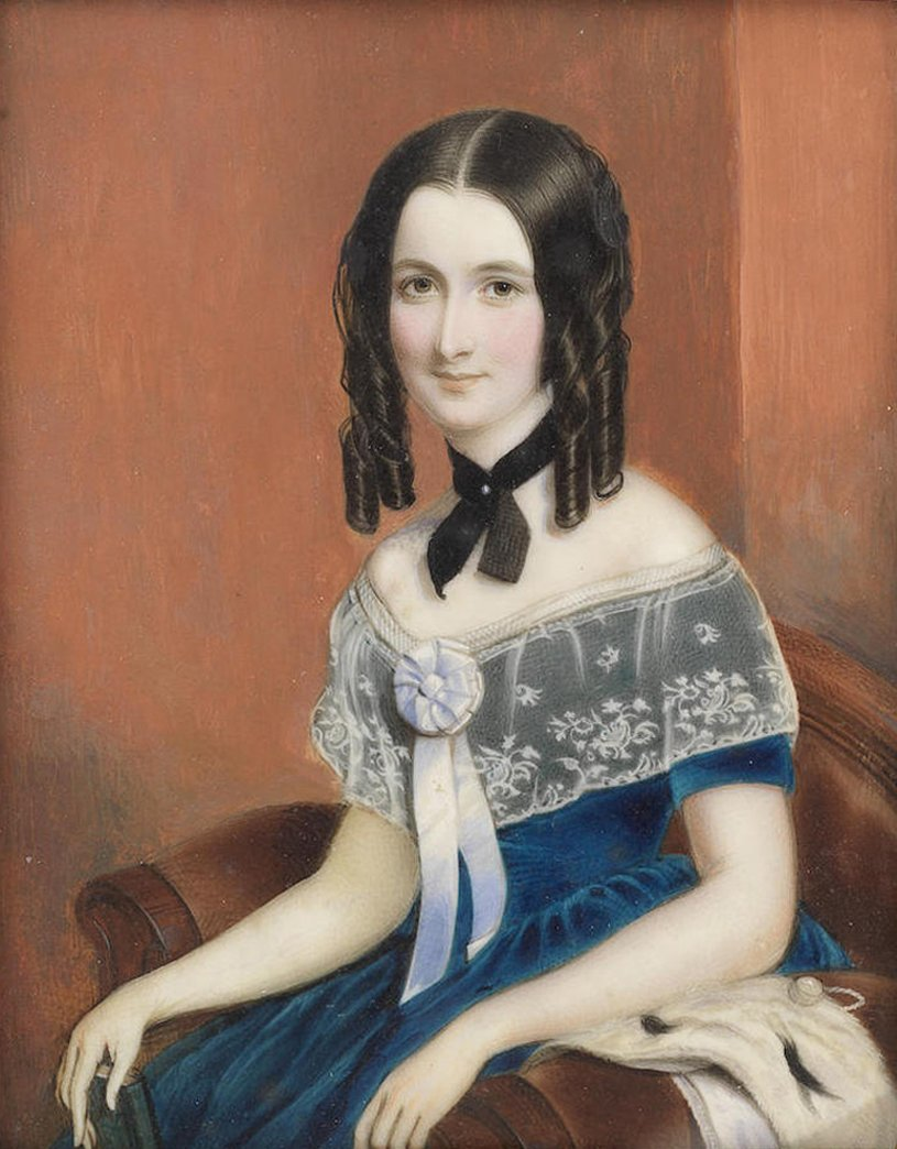 A Young Lady seated in an upholstered armchair, a portrait miniature by Charles Foot Taylor.